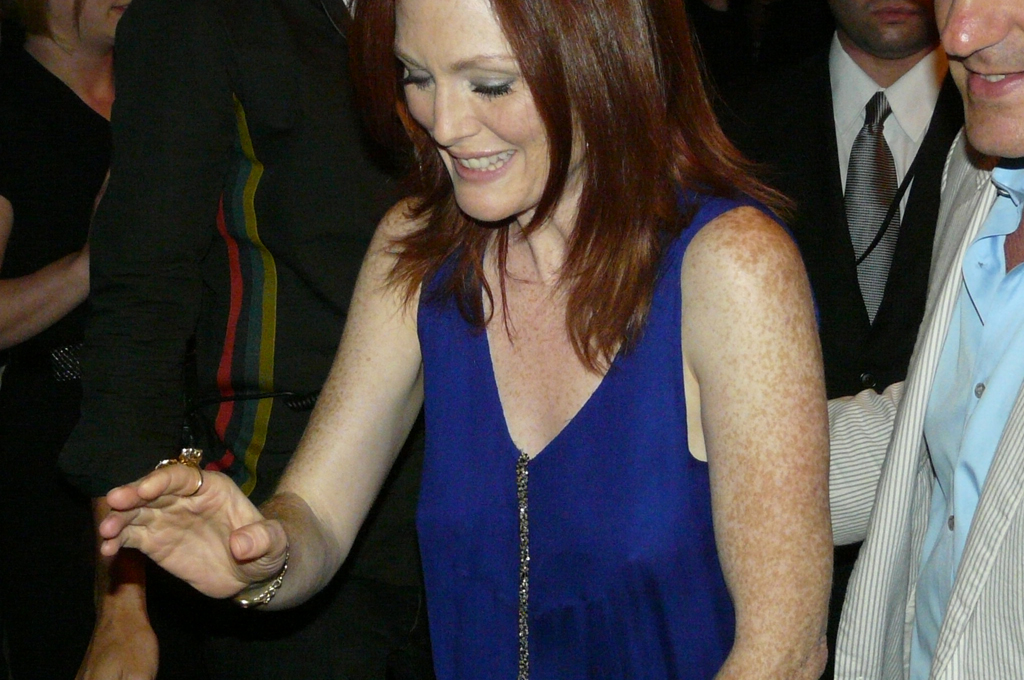 Actress Julianne Moore leaves the Tiff '08 Premiere of her new movie, Blindness Check out even more great Photos and Videos at